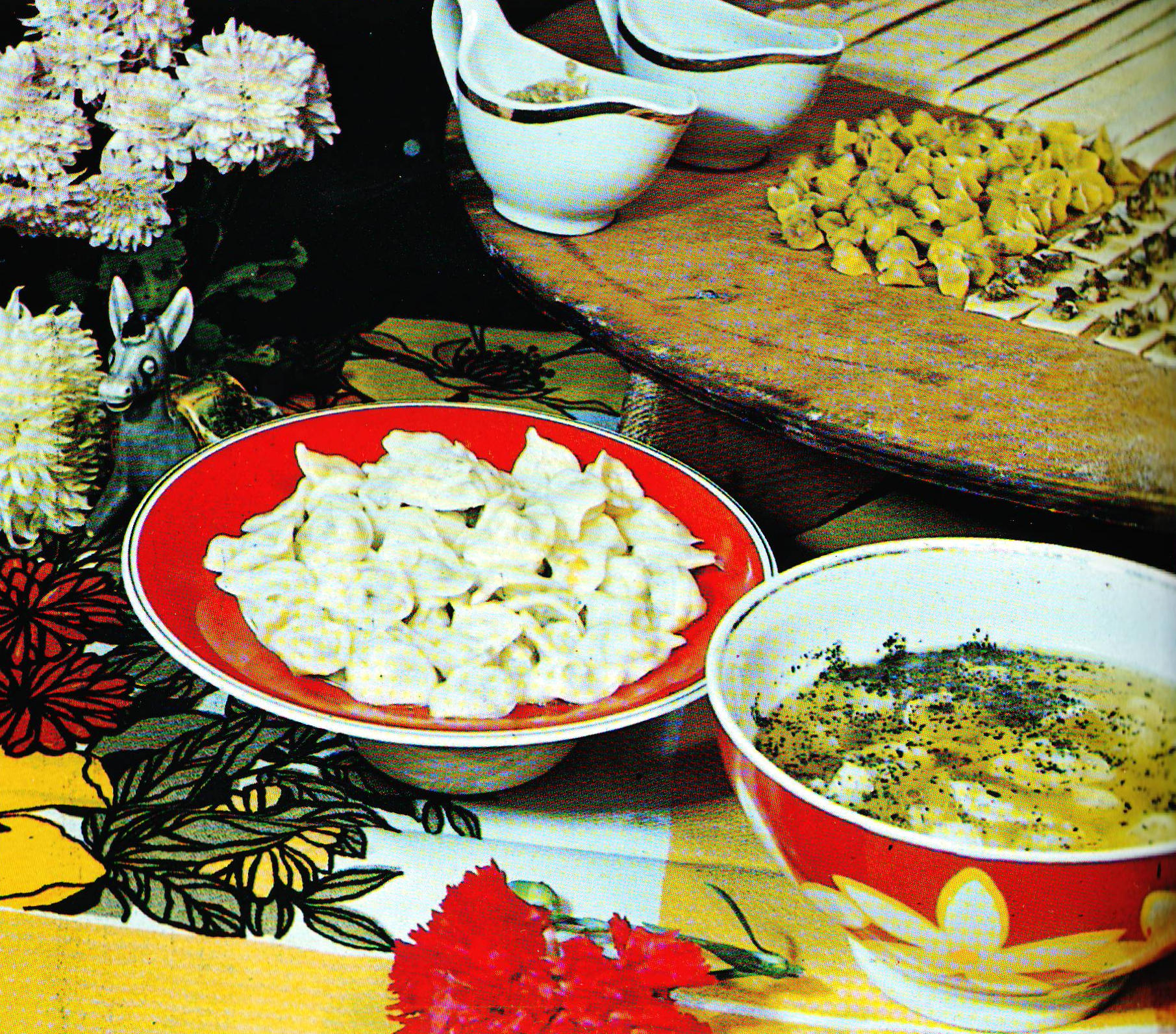 Dushbara ist meat dumplings in the Azerbaijanian style.